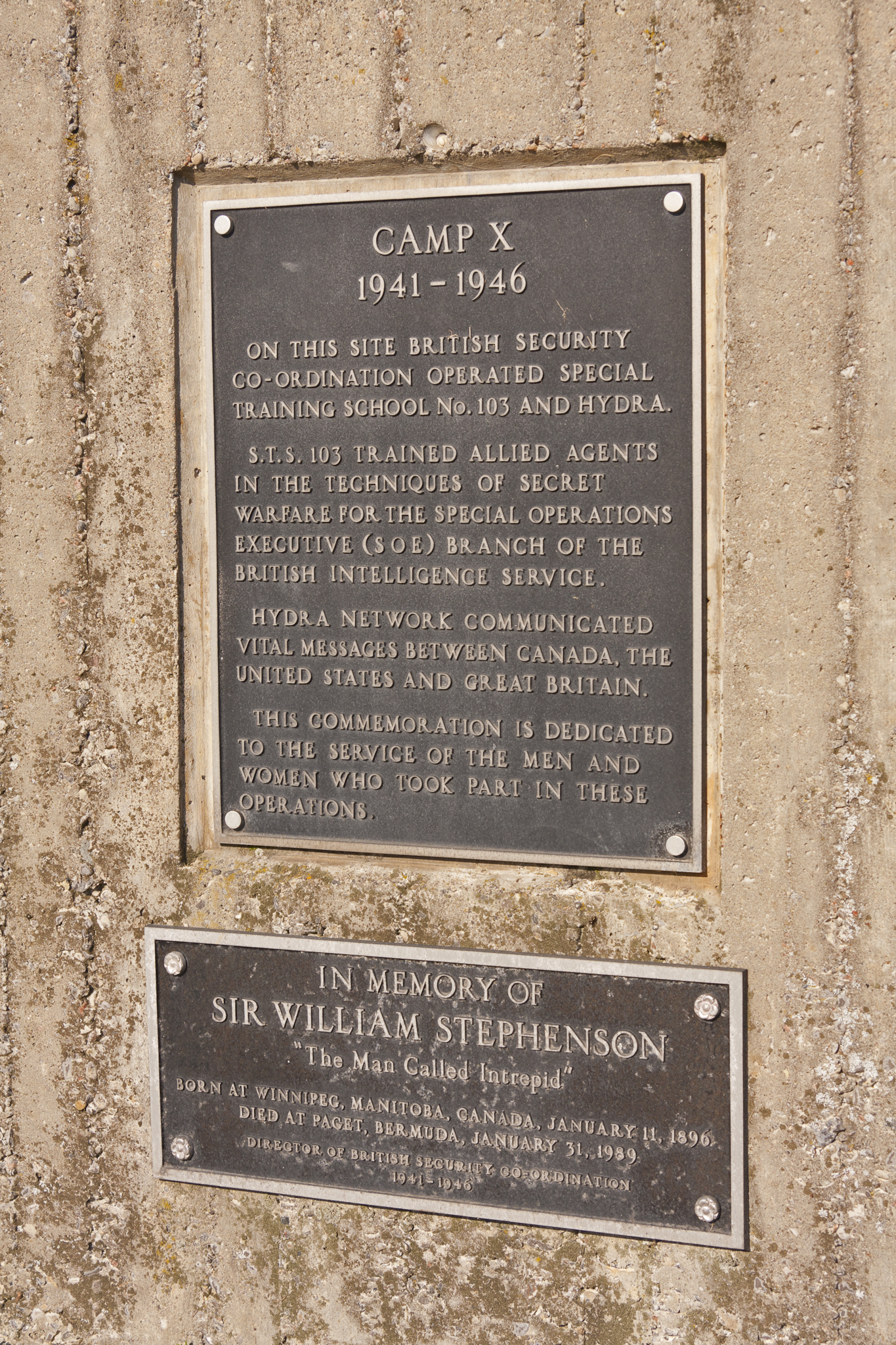 The main plaques on the monument at the site of Camp X. Photographed in the afternoon of Sunday, October 9, 2011.